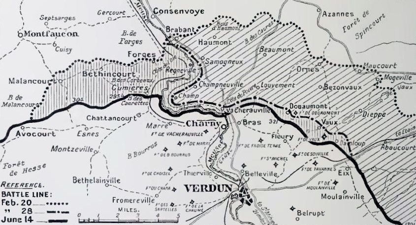 Diagram showing ground captured by the Germans, February to June 1916